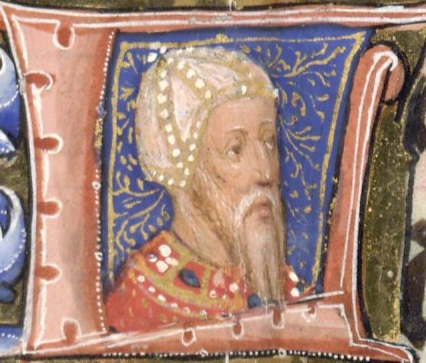 Geoffrey Chaucer portrait; from BL Add MS 42131; identified by Sylvia Wright. See "The Author Portraits in the Bedford Psalter-Hours: Gower, Chaucer and Hoccleve". Held and digitized by the British Library.